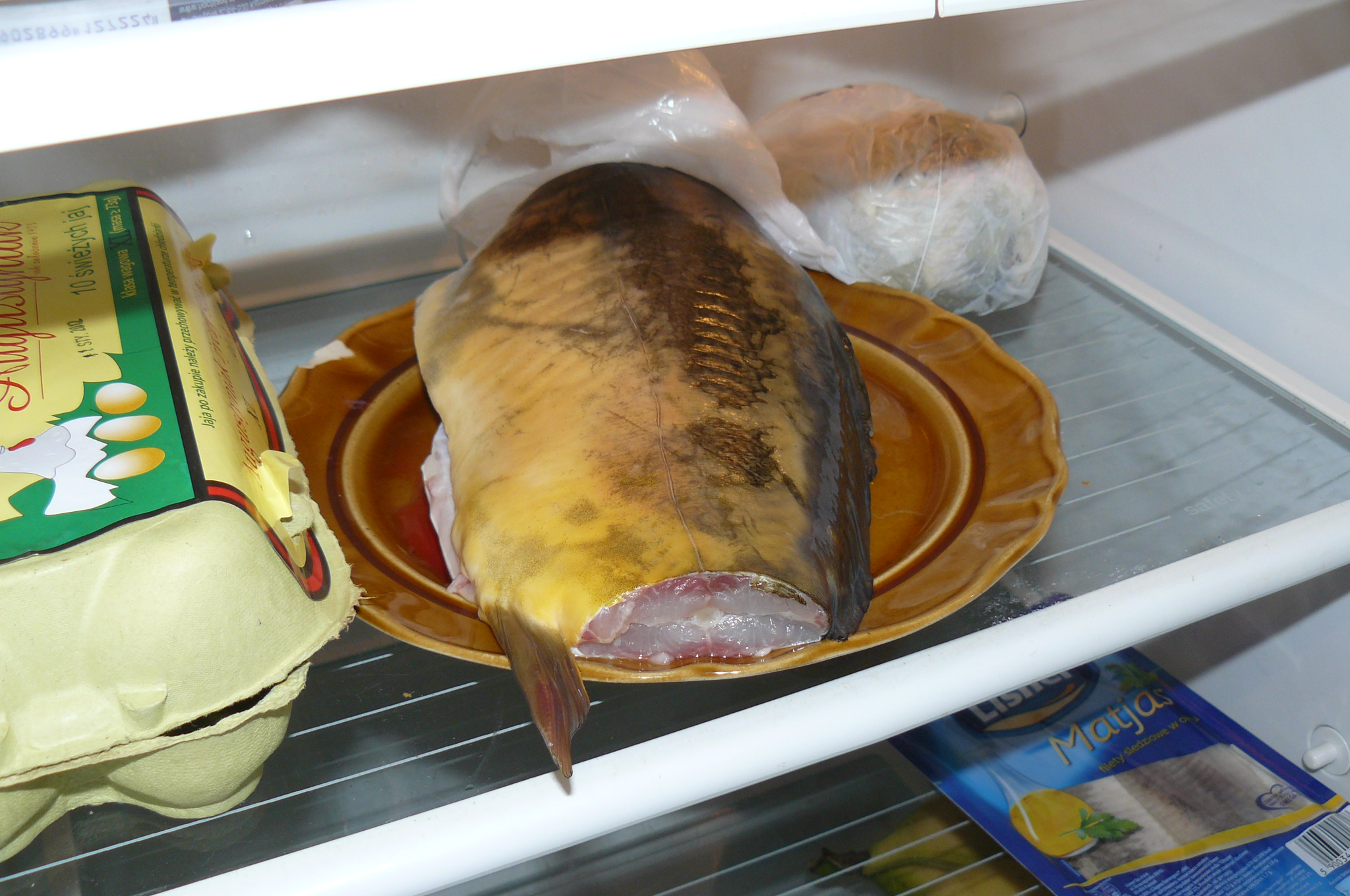 Preparations for Christmas Eve in Poland. Carp in the refrigerator. Poznań.